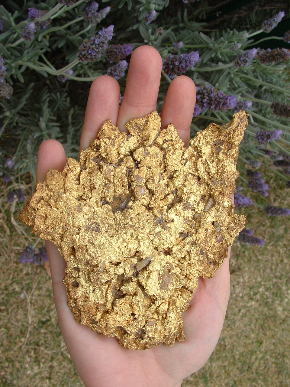 Gold Locality: Gladstone, Queensland, Australia (Locality at ) Size: cabinet, 14 x 11.3 x 1.8 cm Gold (The Providence Nugget) This is a crystallized gold from Australia, a land where usually only rounded nuggets are found. The crystals are flattened along one axis, and elongated, resulting in a lot of visual size impact per the weight/mass. This kind of surface area to mass ratio in a gold specimen we refer to as "pancake" in style because it gives you so much of the mass on the display face. This makes them more appealing as specimens, to most folks. In this size, especially, a crystallized specimen is extremely rare. It is 1100 grams in mass, of nearly pure gold mixed with minor amounts of quartz included (but still an estimated 1075 grams of gold is present). However, more than the size and the crystallographic rarity, there is yet another factor to consider. This was found in Queensland, not the richer, more common goldfields of Victoria in southern Australia. For the Northern Australian fields, this far outranks nearly everything else known to have been recovered (at least in modern times, where noted). Given the trustworthy source (one of Australia's leading field collectors), I regard this as having additional interest value. Per the collector, well-known Aussie gold-prospector and gold-detection equipment proprietor Jack Lange: "The Providence nugget was found by me near Gladstone QLD at the start of the 2004 Olympics. The Goldfield is situated under the town's suburbs. I got it on the fringes of the suburb. It was the only nugget within 300 metres, buried under only 45 cm of soil. The amazing find was featured in 2005 on the cover of our Australian Gold, Gem, and Treasure Magazine. Crystalline nuggets of this size (1100.3 grams) are almost unheard of in modern times!"